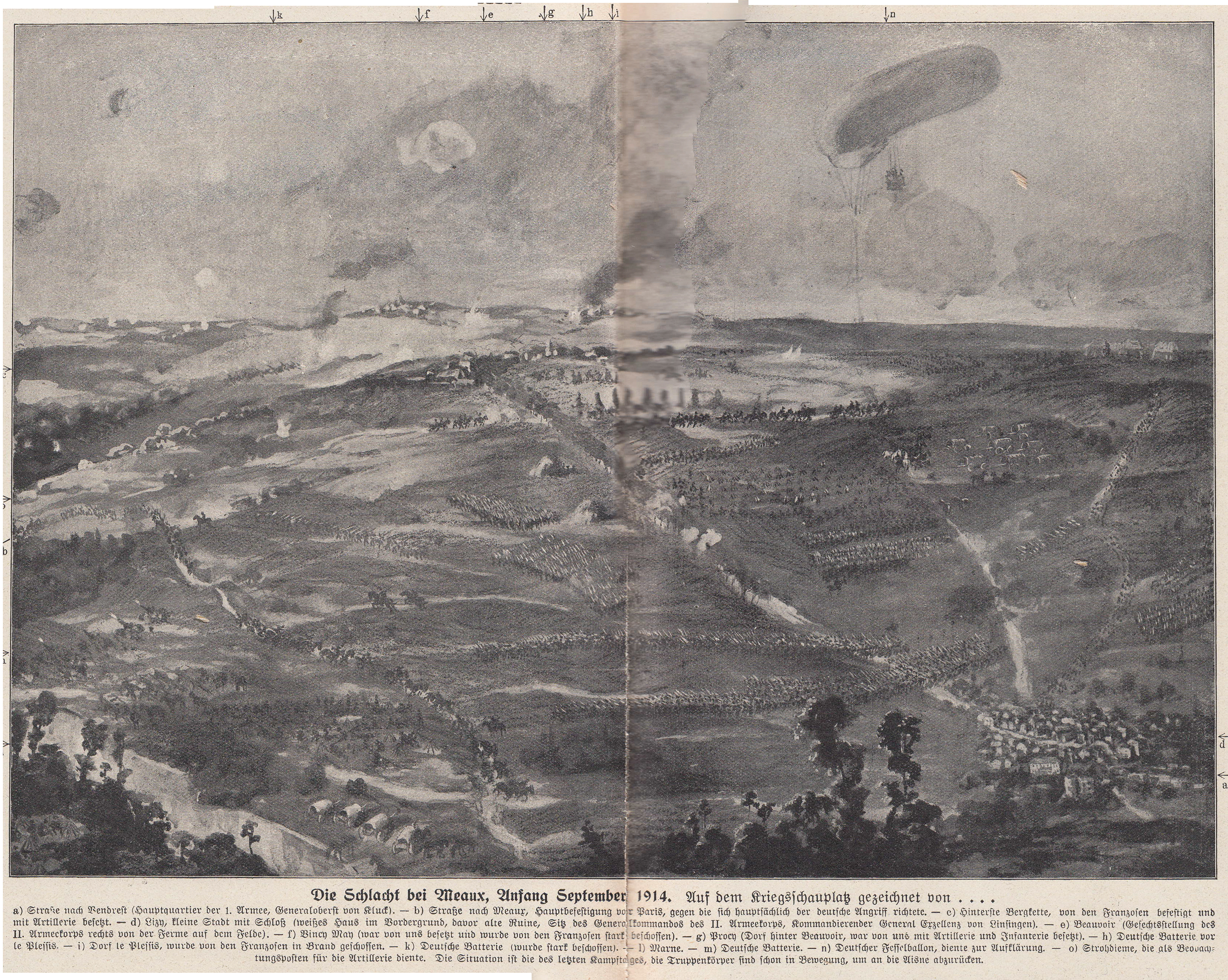 Der Krieg 1914-19 in Wort und Bild, published 1919